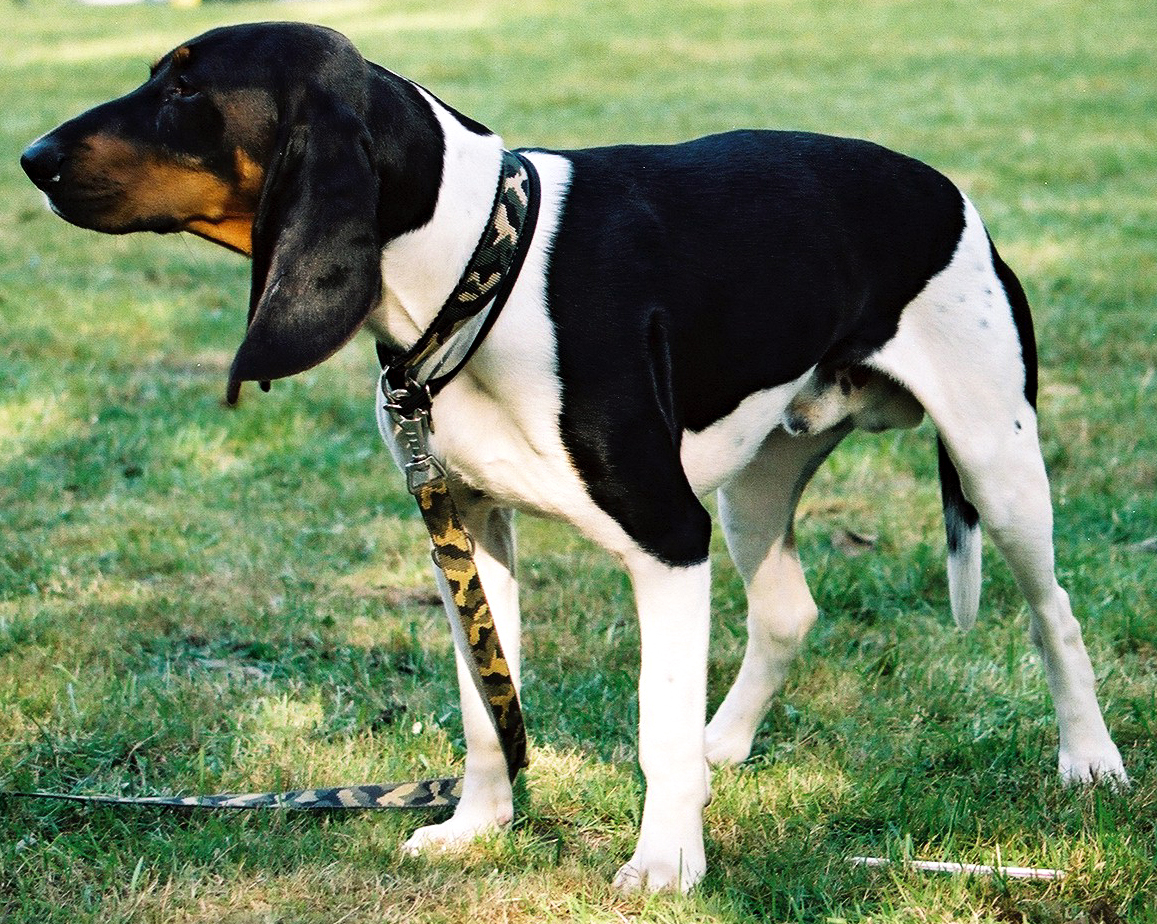 Berner Laufhund during dogs show in Rybnik, Poland.